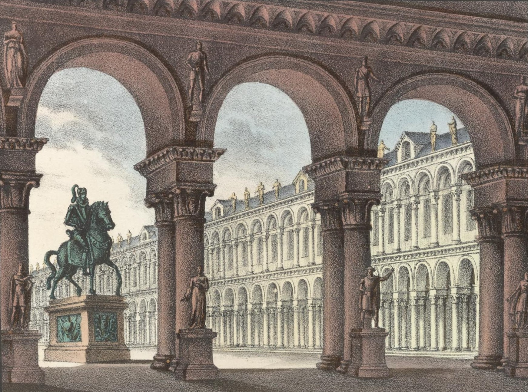 Set design by Alessandro Sanquirico for the opera Ugo, Conte di Parigi by Gaetano Donizetti, created 13 March 1832 at La Scala, Milan.